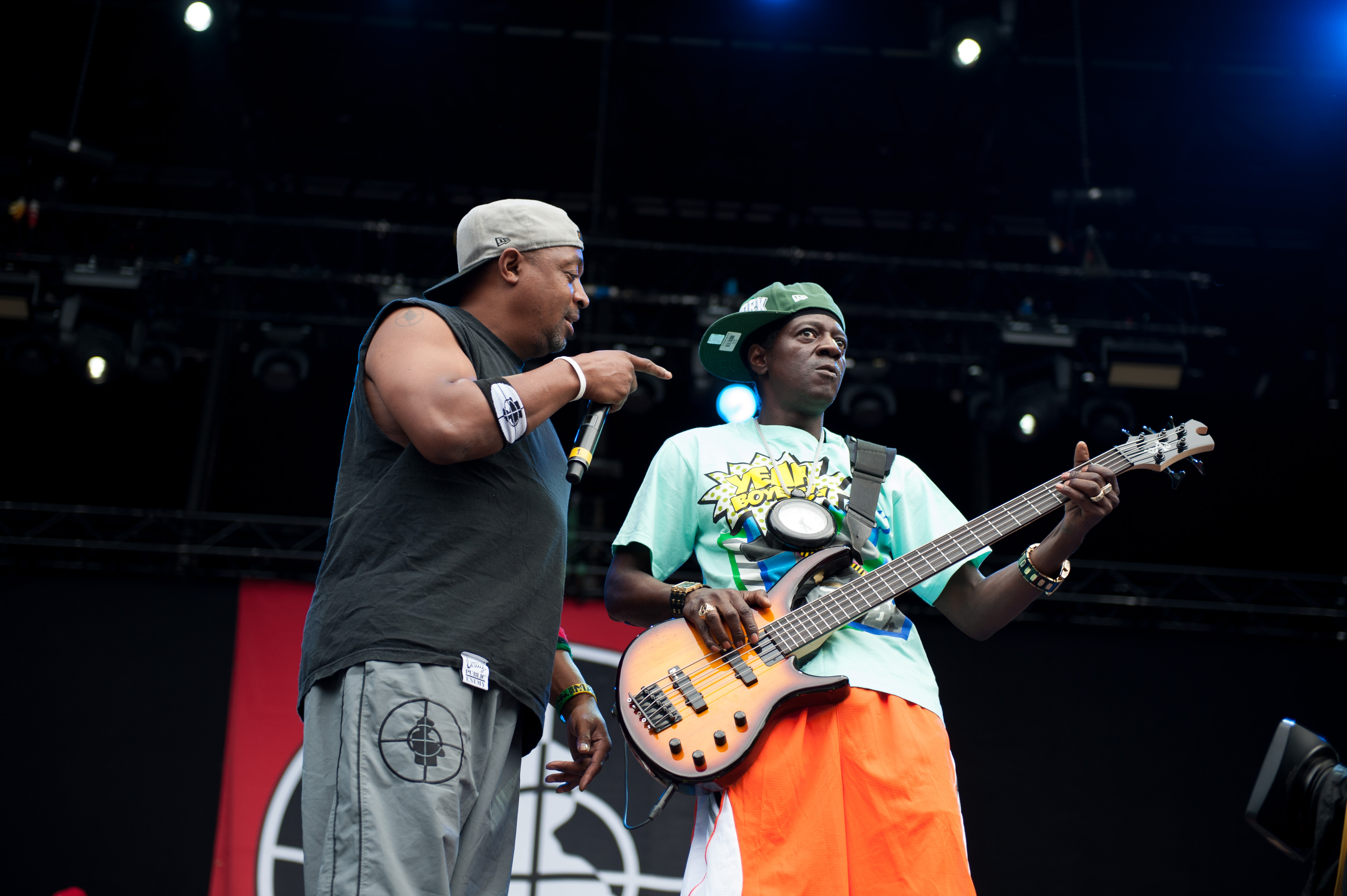 Chcuk D and Flavor Flav of Public Enemy at Way Out West 2013 in Gothenburg, Sweden